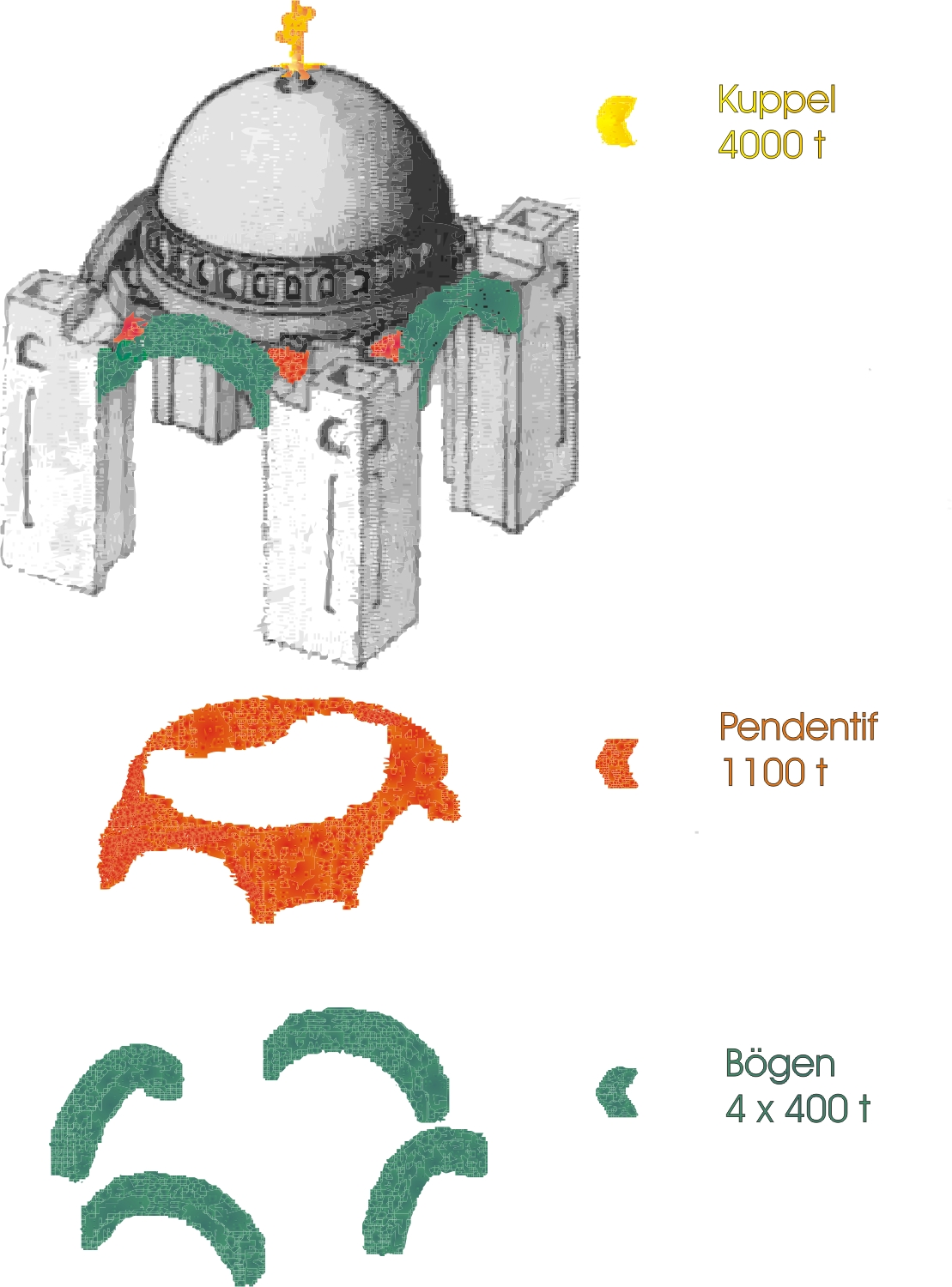 Lift-Slab Method Hram Svetog Save